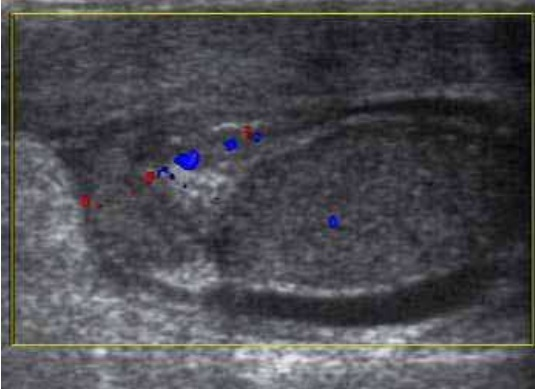 Scrotal ultrasonography of a testicular appendiceal torsion.